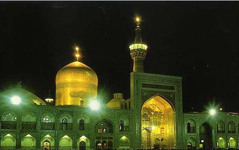 Photo: Darkred